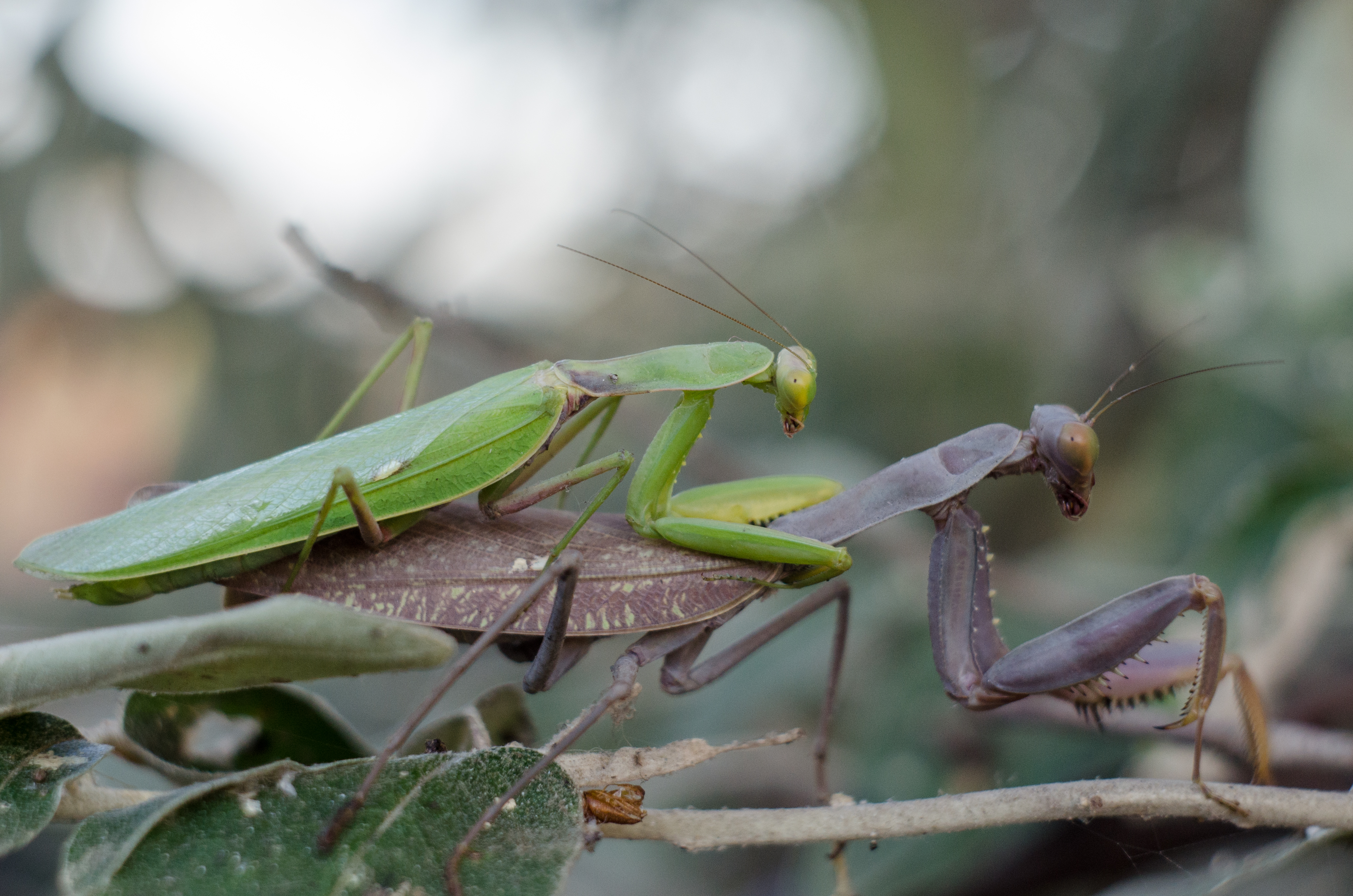 Hierodula trancaucasica on Dzharylgach island (Ukraine)